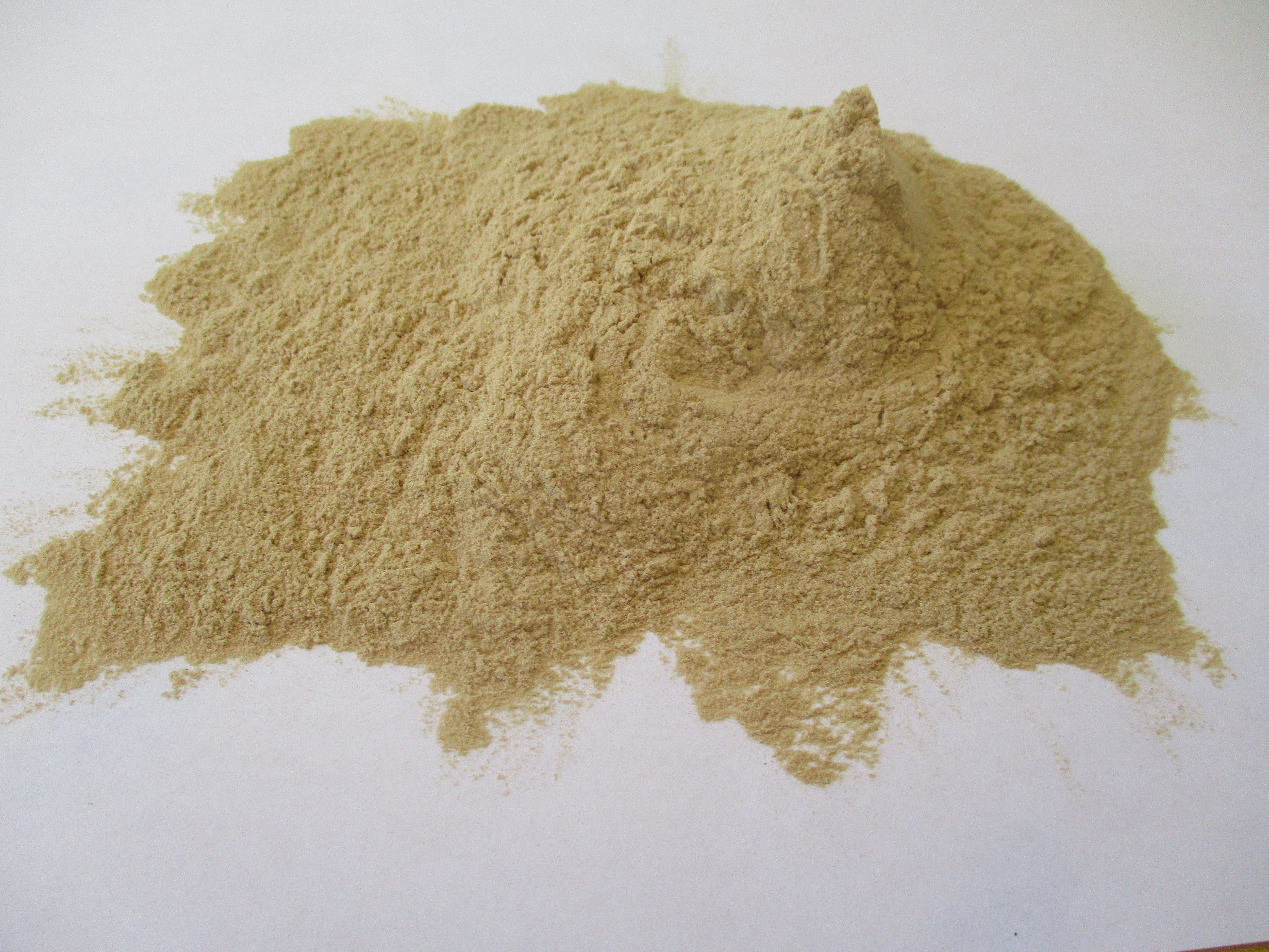 company: MRM organic, raw